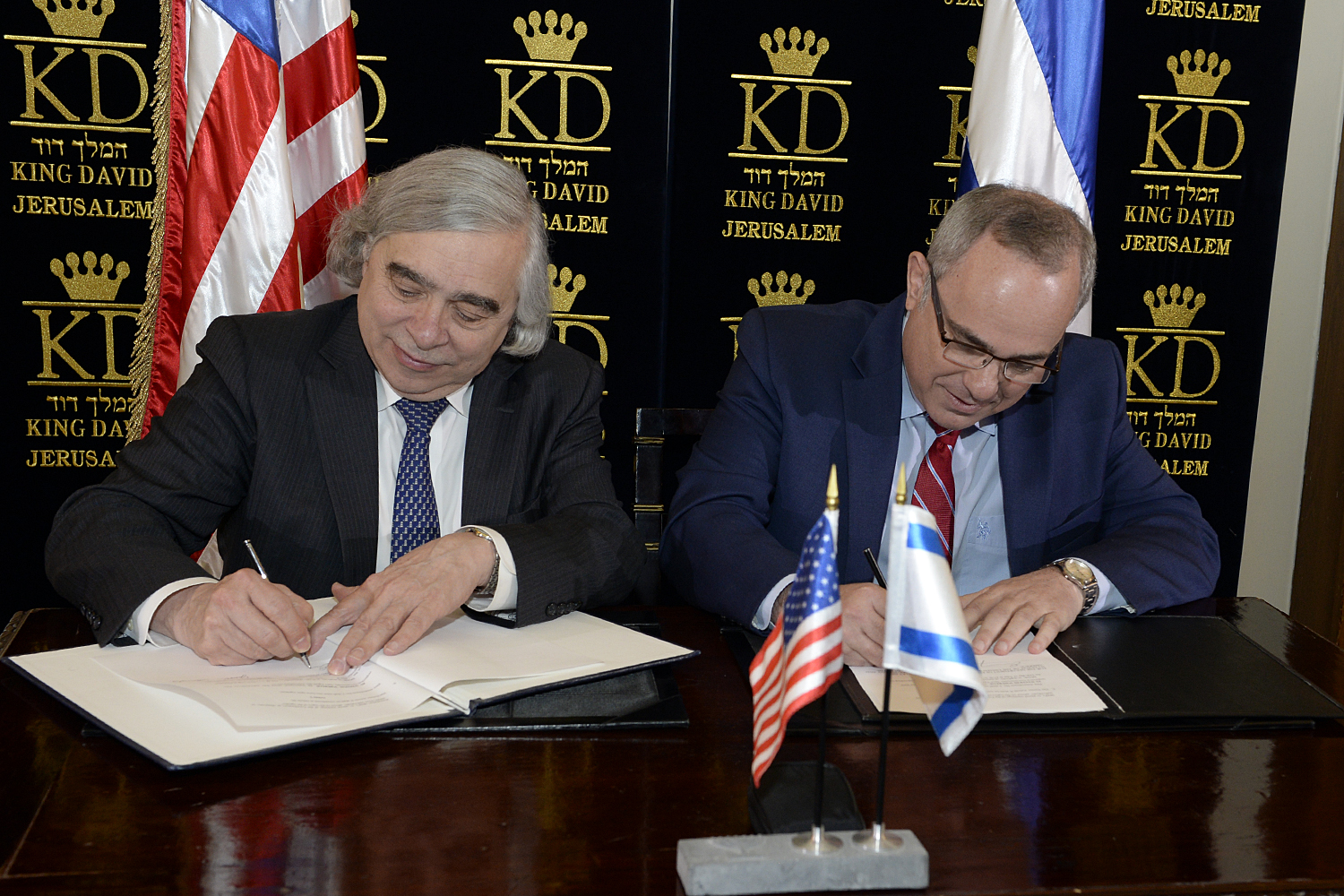 Secretary of Energy, Dr. Ernest Moniz, visited Israel April 3-5 for a round of meetings and events with Israeli government and private sector leaders. After meeting with Prime Minister Netanyahu, Secretary Moniz also met his counterpart, Minister of Infrastructure, Energy, and Water Resources, Dr. Yuval Steinitz, with whom he signed an amendment to the U.S.-Israel Energy agreement. Secretary Moniz was treated to a walking tour of Masada, a helicopter flight over central Israel, and, in focusing on the energy-water nexus of U.S.-Israel energy cooperation, toured the world’s largest seawater desalination plant at Sorek. Secretary Moniz also spoke to the Israel Energy Conference, before meeting and speaking with students at the Weizmann Institute in Rahovot. Photo credit: Matty Stern/U.S. Embassy Tel Aviv Secretary of Energy, Dr. Ernest Moniz, visited Israel April 3-5 for a round of meetings and events with Israeli government and private sector leaders. After meeting with Prime Minister Netanyahu, Secretary Moniz also met his counterpart, Minister of Infrastructure, Energy, and Water Resources, Dr. Yuval Steinitz, with whom he signed an amendment to the U.S.-Israel Energy agreement. Secretary Moniz was treated to a walking tour of Masada, a helicopter flight over central Israel, and, in focusing on the energy-water nexus of U.S.-Israel energy cooperation, toured the world’s largest seawater desalination plant at Sorek. Secretary Moniz also spoke to the Israel Energy Conference, before meeting and speaking with students at the Weizmann Institute in Rahovot. Photo credit: Matty Stern/U.S. Embassy Tel Aviv Ernest Moniz visit to Israel, April 2016